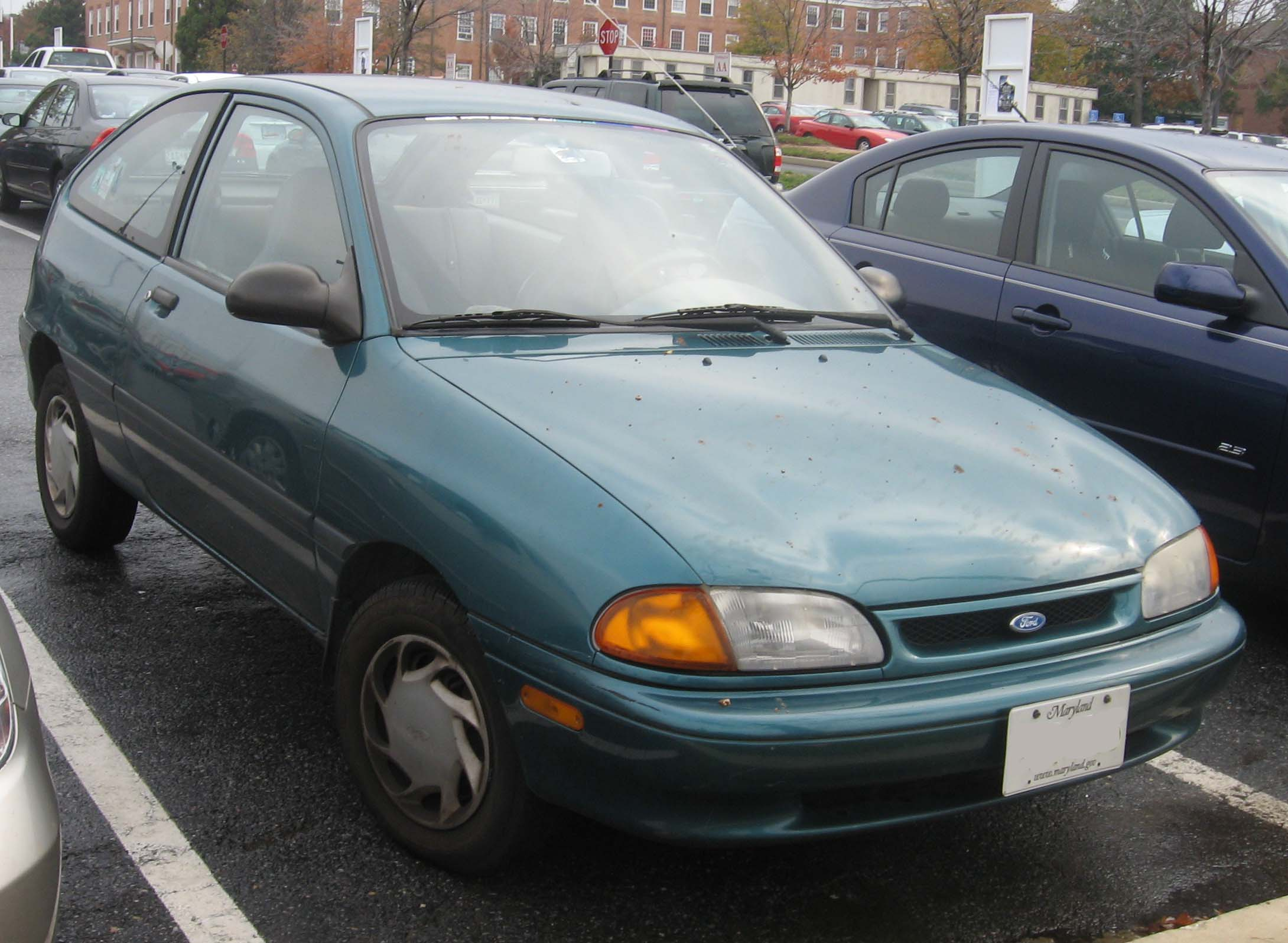 1994-1996 Ford Aspire photographed in College Park, Maryland, USA.